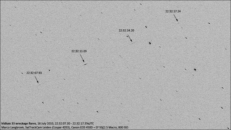 The tumbling wreckage of the Iridium 33 main satellite body causes periodic flashes, seen in this 10 second exposure photograph by amateur satellite observer Marco Langbroek